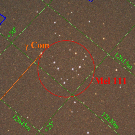 Coma Star Cluster (Melotte 111) - with labels Taken by Richard Bullock